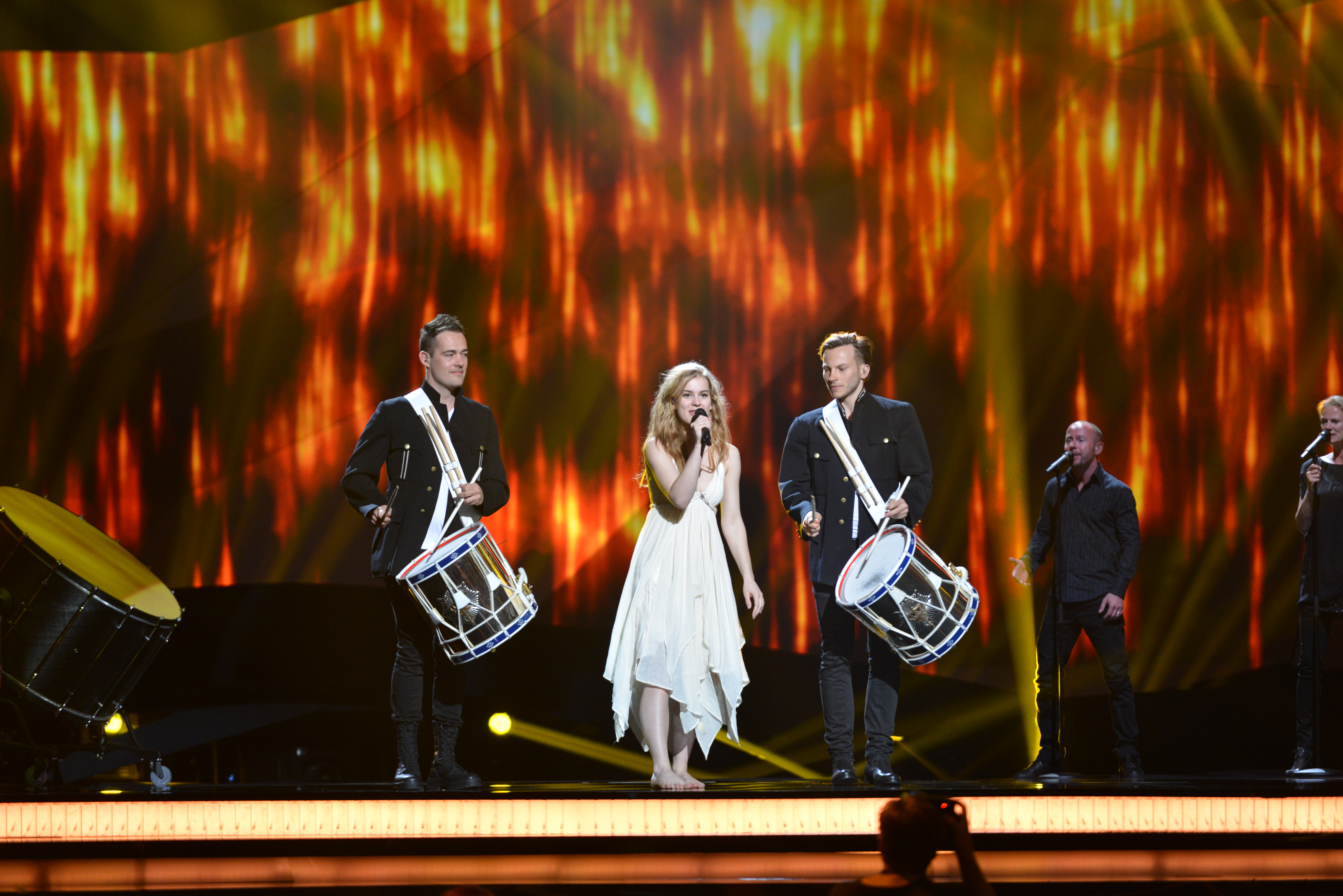 Emmelie de Forest representing Denmark with the song "Only Teardrops" during the first dress rehearsal of the final of the Eurovision Song Contest 2013 in Malmö. (Help translate this text)